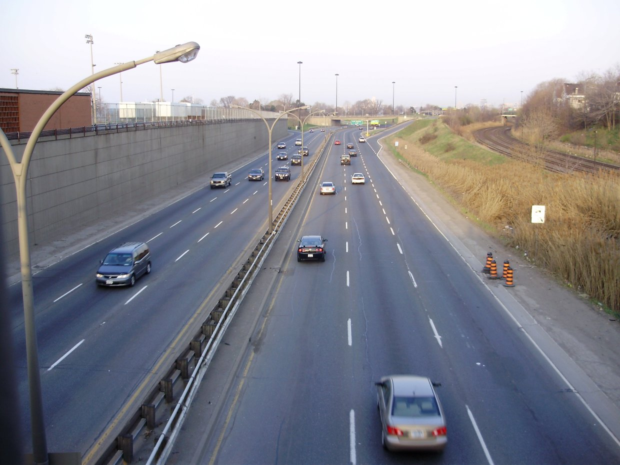 The Gardiner Expressway in Toronto, ON, looking westward. Photo taken from Dufferin Street bridge.